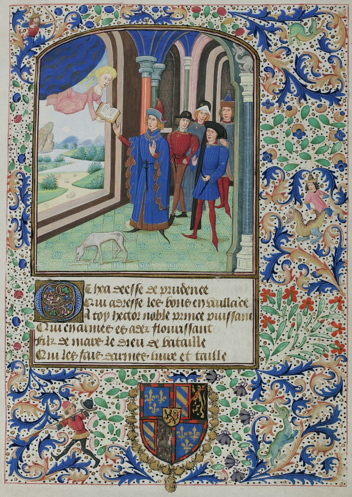 Miniatures cropped from the ~1460 manuscript containing Christine Pizan's 'Épître d'Othéa' (Epistle to Hector; sometimes known as the Book of Knighthood) - Cologny, Fondation Martin Bodmer, Cod. Bodmer 49, courtesy of the Virtual Manuscript Library of Switzerland